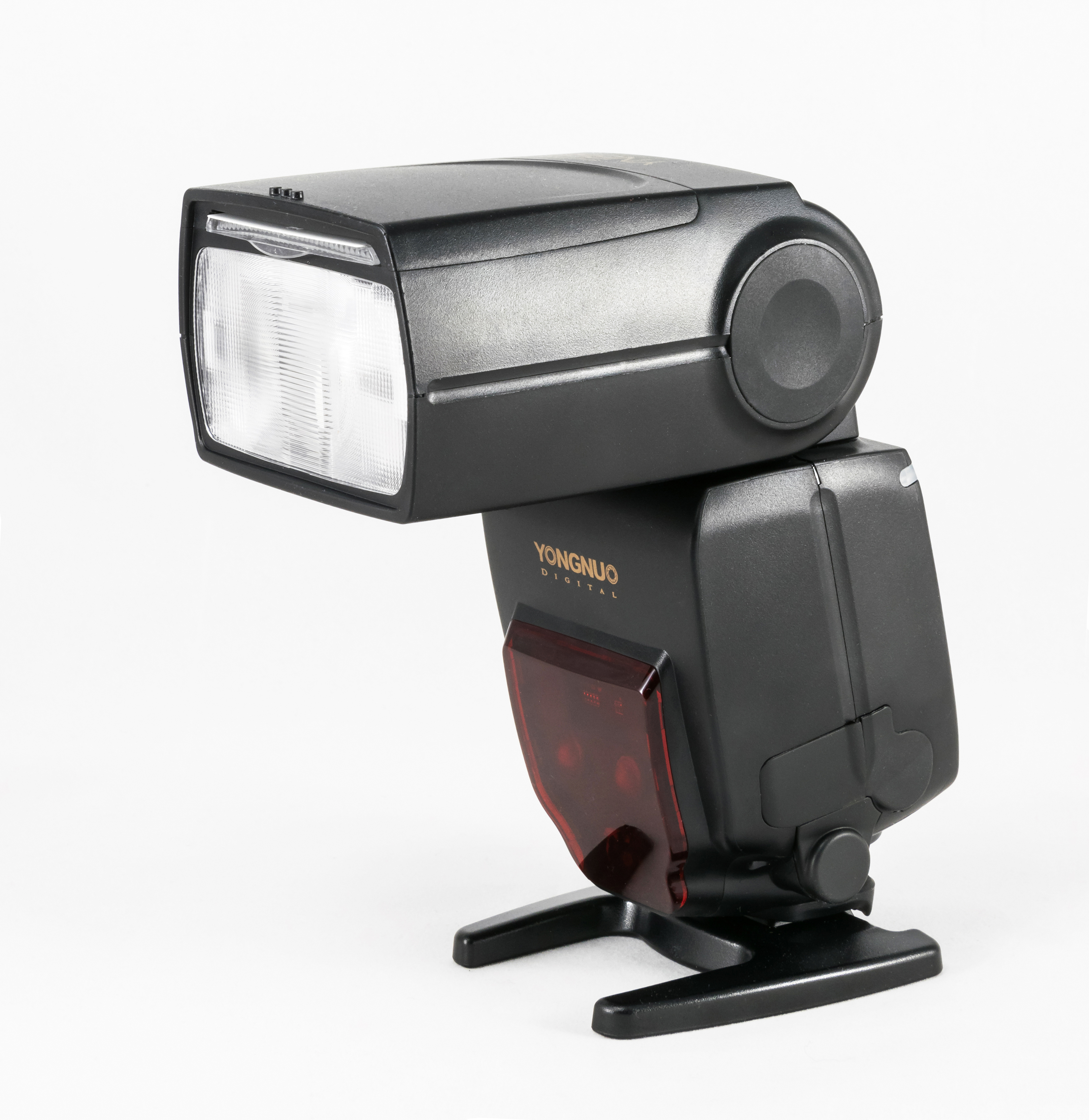 Yongnuo YN685 speedlite